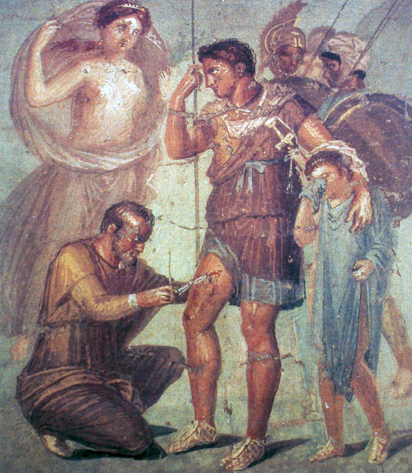 The doctor Japyx heals Aeneas (sided by his mother, goddess Venus, and by his own son Ascanius, who is weeping), wounded on one leg. Ancient Roman fresco from the "House of Sirico" in Pompeii, Italy); mid 1st century. On display at the Museo Archeologico Nazionale (Naples).